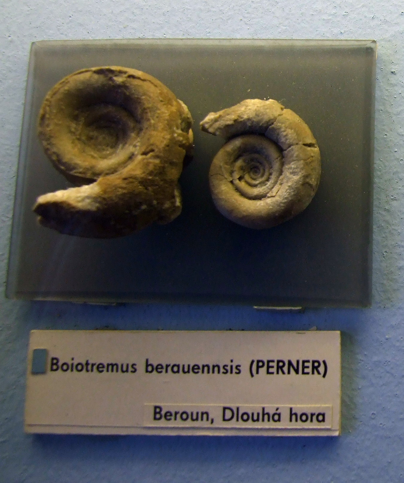 Fossil of Boiotremus berauennsis at the Palaeontological exhibition, National Museum in Prague.